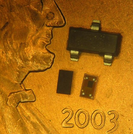 Photograph of example UNI/O devices in SOT-23 and wafer level chip scale packages sitting on the face of a U.S. penny. The actual devices photographed are all the 11LC160, a serial EEPROM manufactured by Microchip Technology Inc.